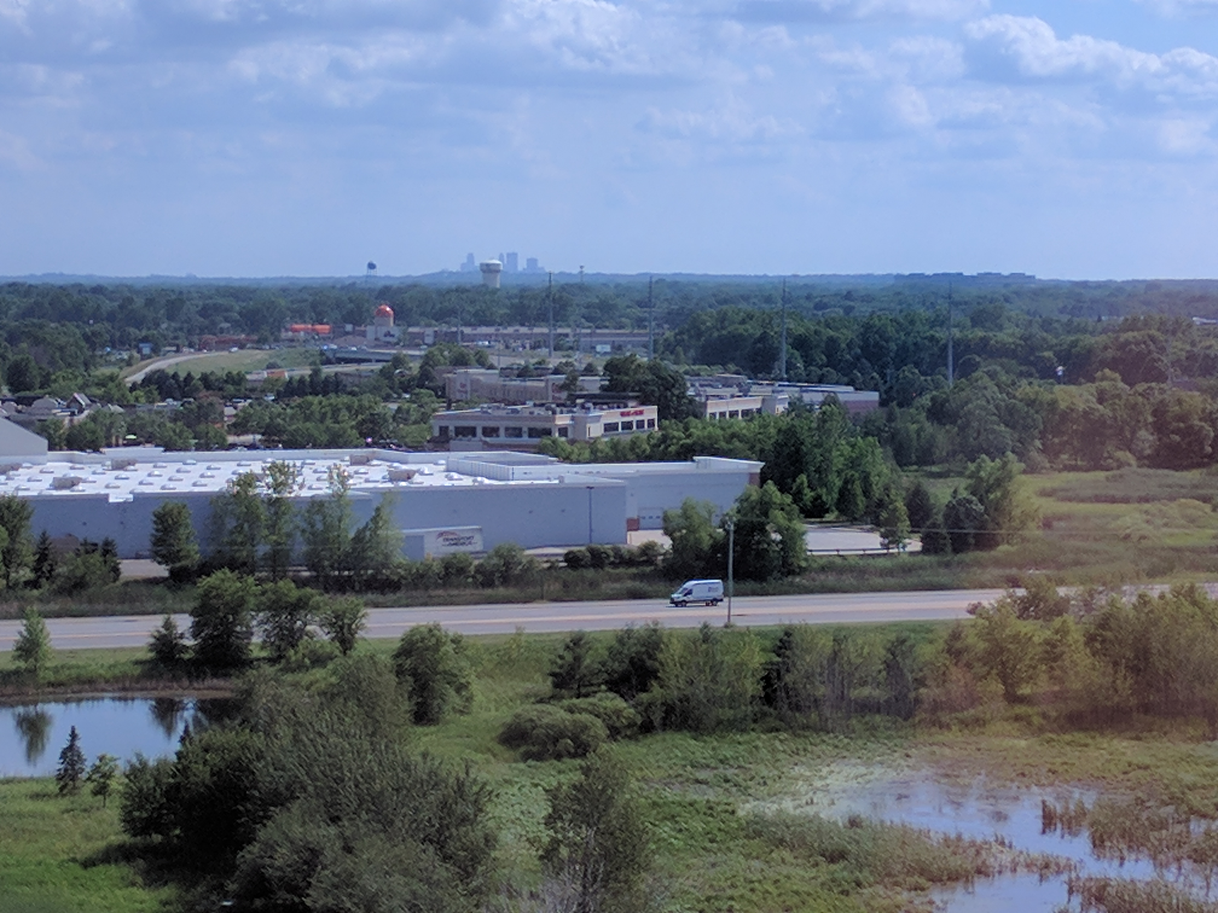 Blaine, Minnesota